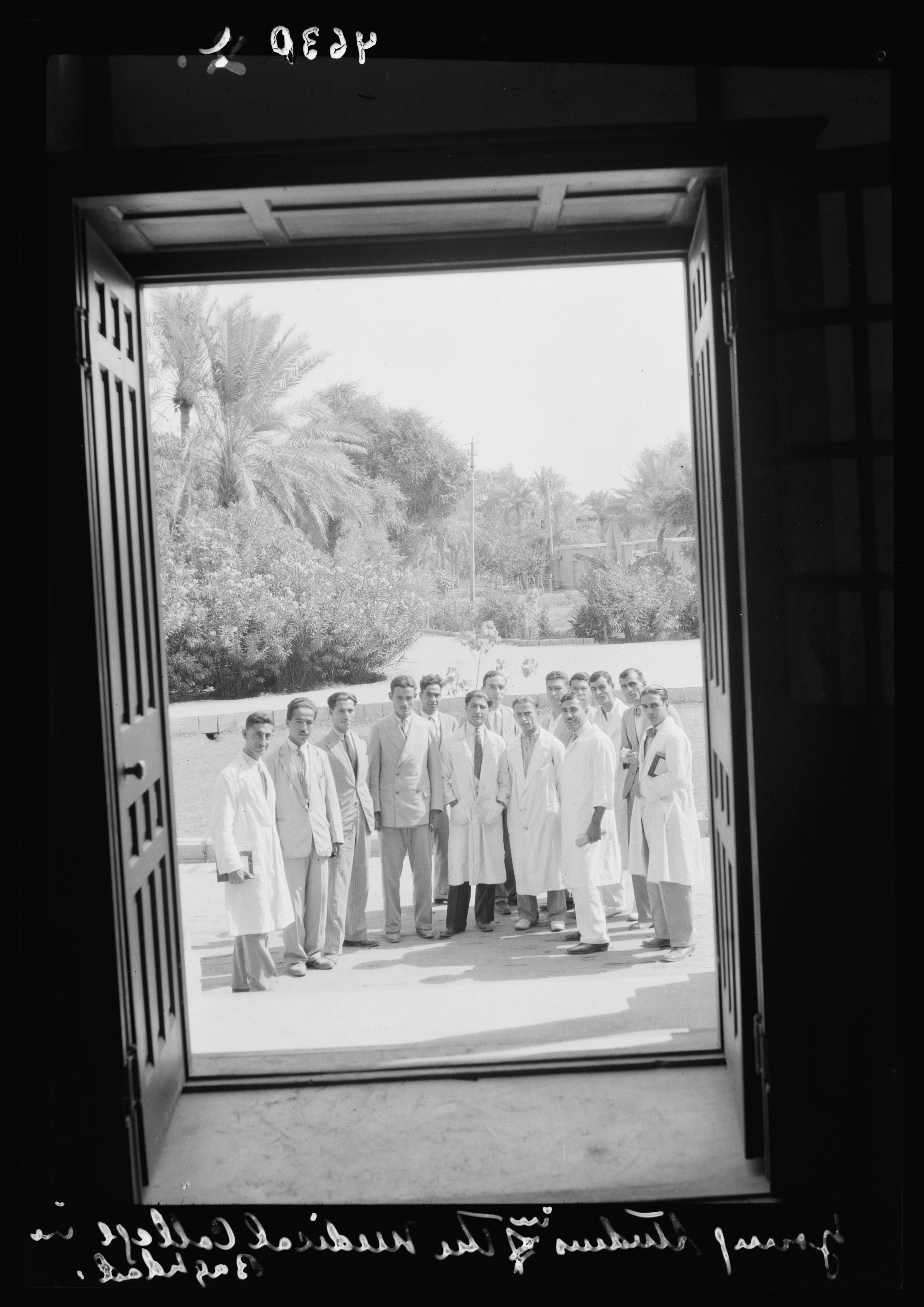 Title: Iraq. (Mesopotamia). Royal College of Medicine of Iraq. Baghdad. Medical College. Group of students. Outside the entrance, on the campus Abstract/medium: G. Eric and Edith Matson Photograph Collection Physical description: 1 negative